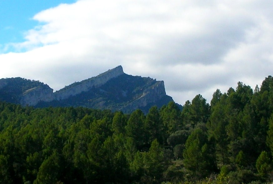 Punta de l'Àliga in the Montsagre de Paüls mountain range, Ports